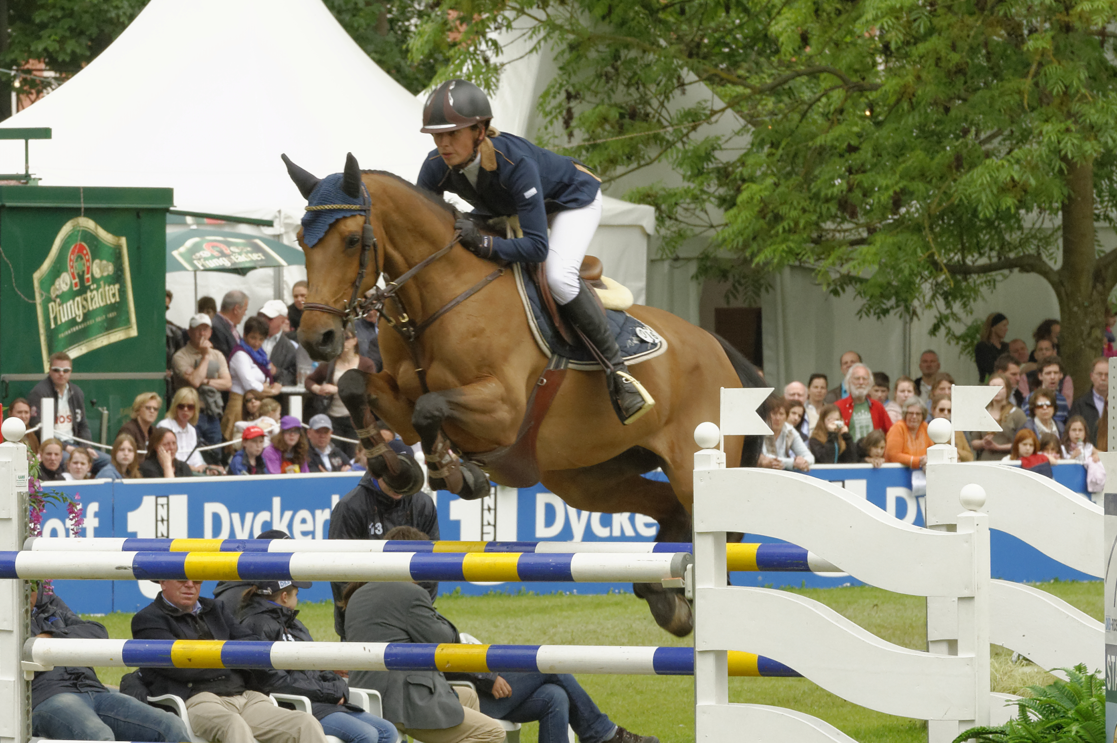 Internationales Pfingstturnier Wiesbaden 2013 The making of this document was supported by the Community-Budget of Wikimedia Germany.